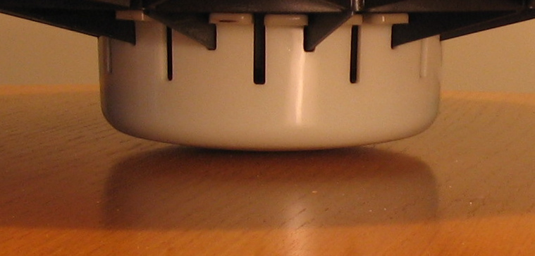 In the U.S.A.: This wobble board is sold by the following three companies. The only differences in their product are the board’s logo, the fulcrum’s color and that the Cathe product includes a video disk of exercises done with several pieces of fitness equipment, including a wobble board. model name: Amber Sporting Goods Tri Level Balance Board Type “ABB” in the searchbox there. model name: Valeo Tri-Level Balance Board Type “balance board” (not “Tri-Level Balance Board”) in the searchbox there. model name: Cathe Adjustable Core Balance Board Type “balance board” in the searchbox there. The diameter of the board of the above model(s) is 14 inches (35.5 centimeters). In Europe: A version of the above model whose board's diameter is 16 inches (41 centimeters) is available at this address